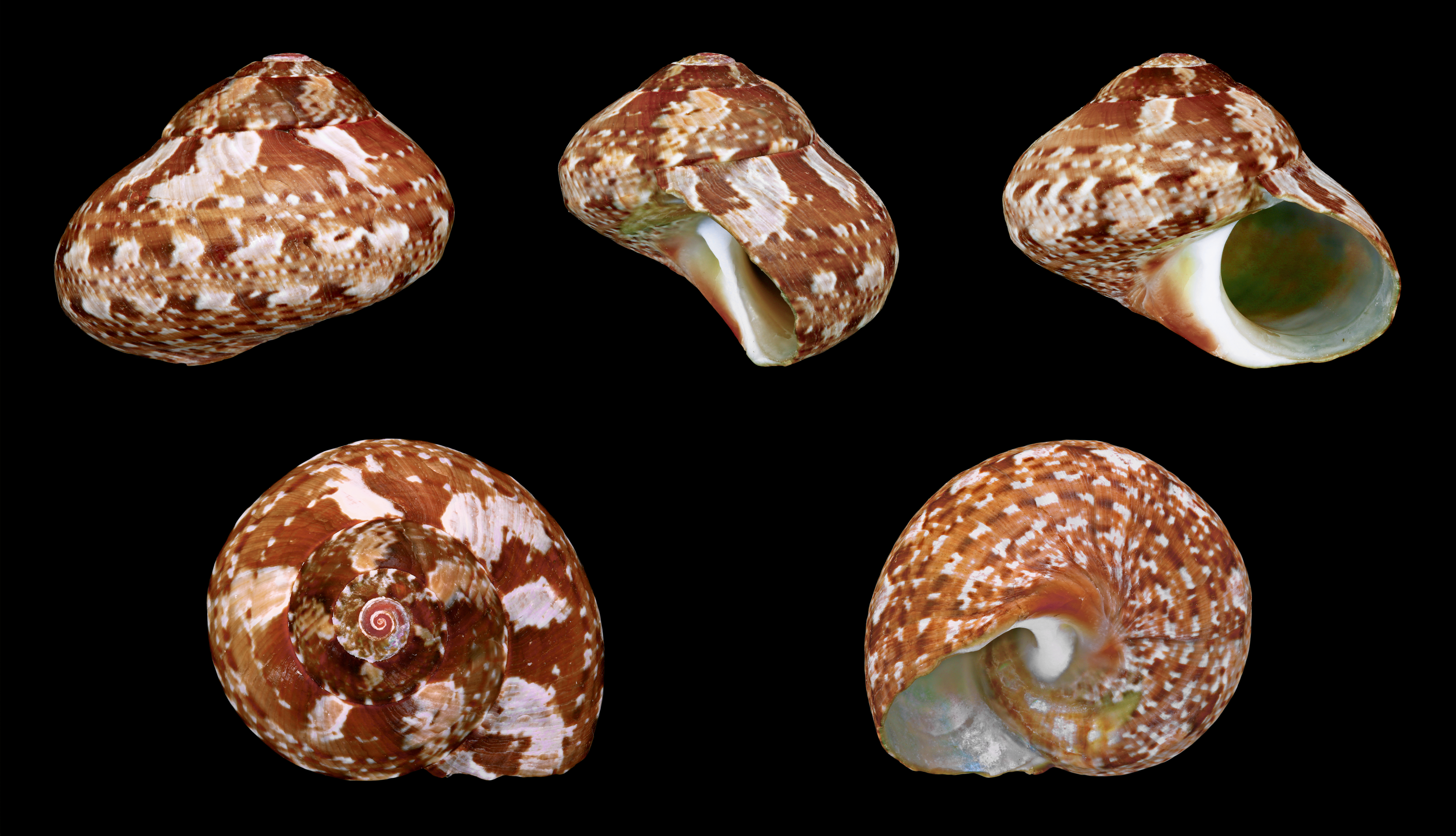 Crown Turban; Diameter 2.0 cm; Originating from Arnston, South Africa; Shell of own collection, therefore not geocoded. Dorsal, lateral (right side), ventral, back, and front view.